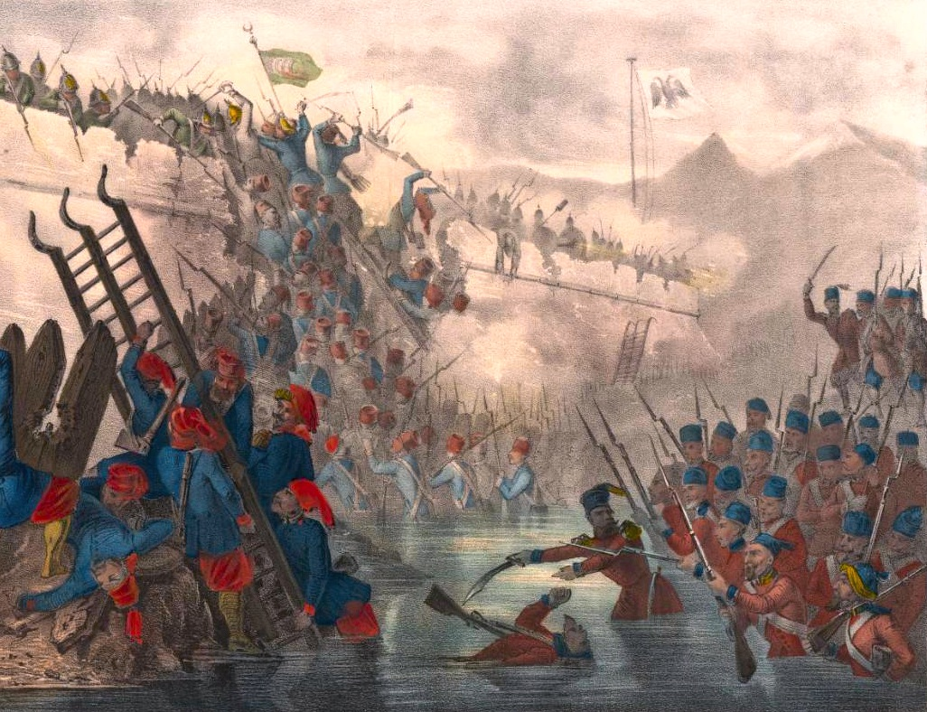 Turkish troops storming Fort Shefketil or St. Nicholas near Batum, Georgia.